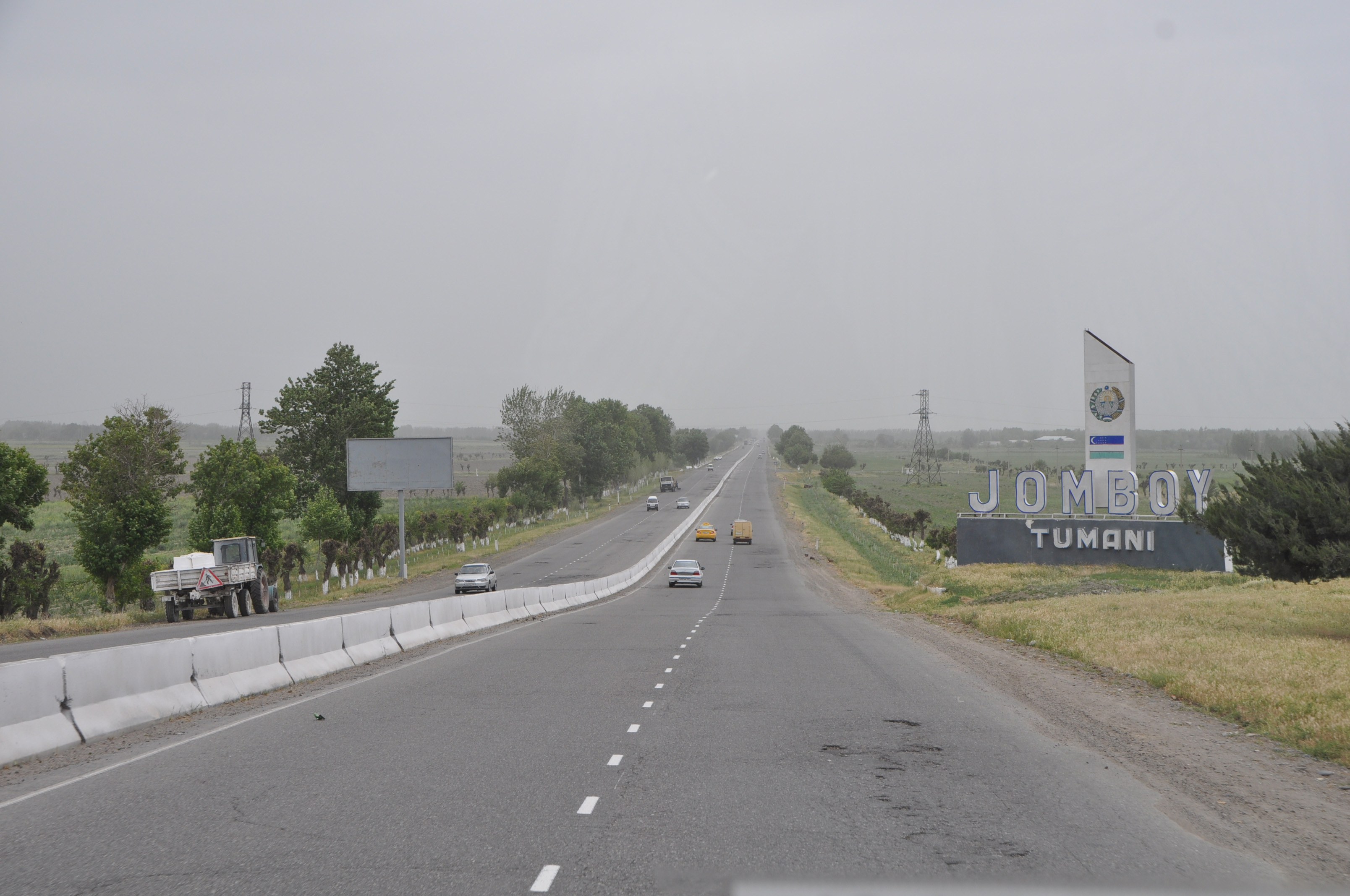 M39 Highway in Uzbekistan near Jomboy toward Samarkand